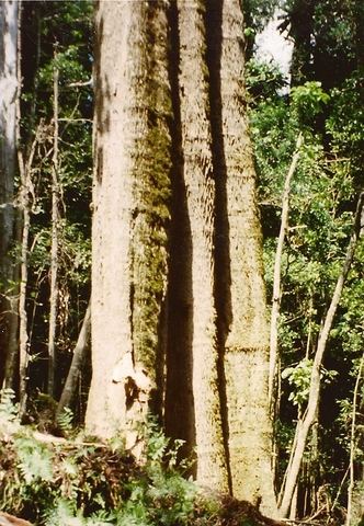 Citronella moorei (giant tree) - Allyn river, Barrington Tops